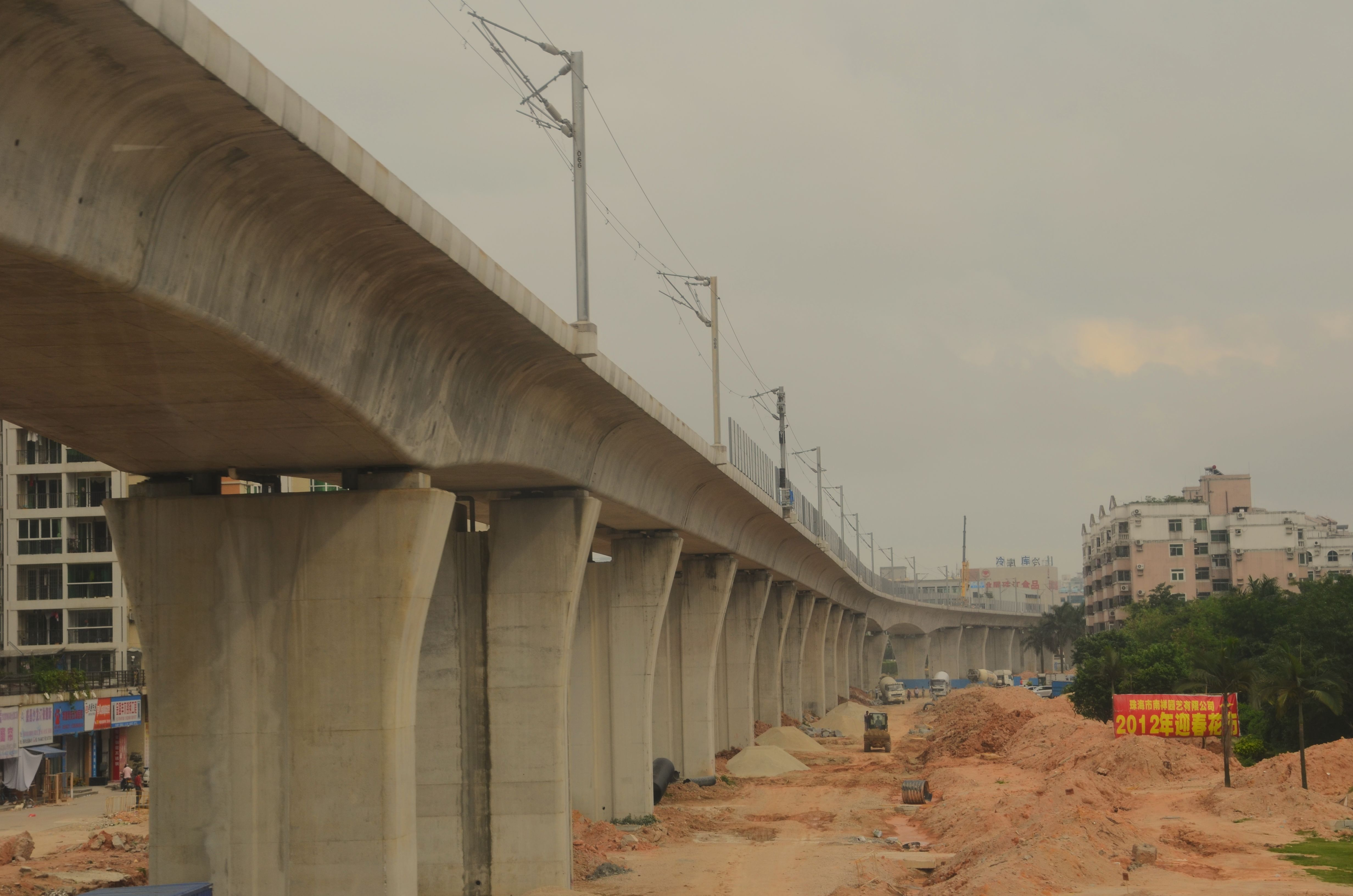 MRT in construction in may 2012 at Zhuhai, just South-East of Qianshan station.